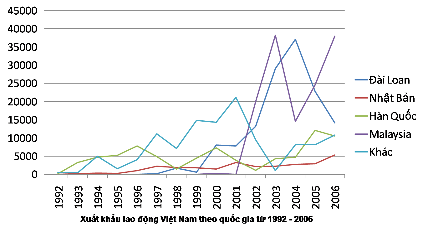 Total number of Vietnamese migrant workers developed by year by destination from 1992 to 2006 (to Taiwan, Japan, South Korea, Malaysia, others)